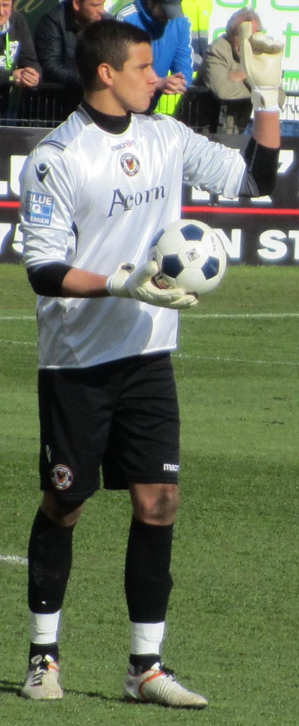 Karl Darlow